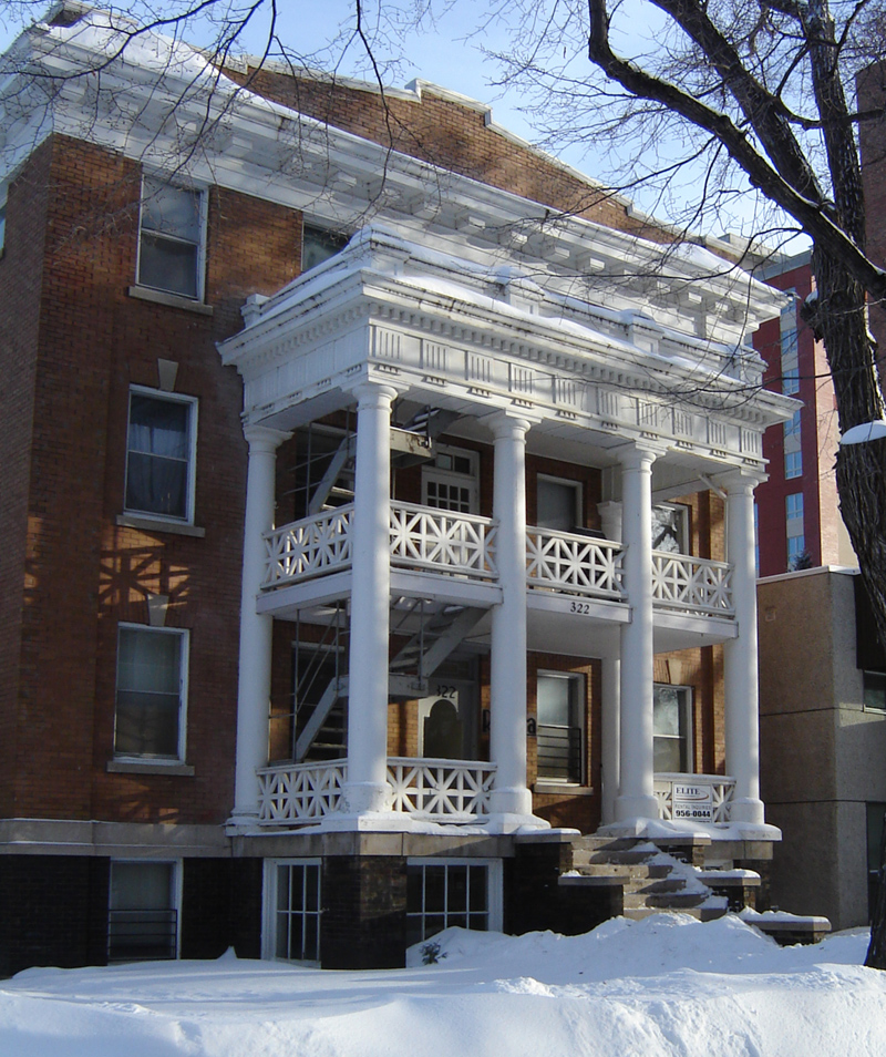 6th Avenue North Historic Building Central Business District, Core Neighbourhoods SDA, Saskatoon, Saskatchewan, Canada